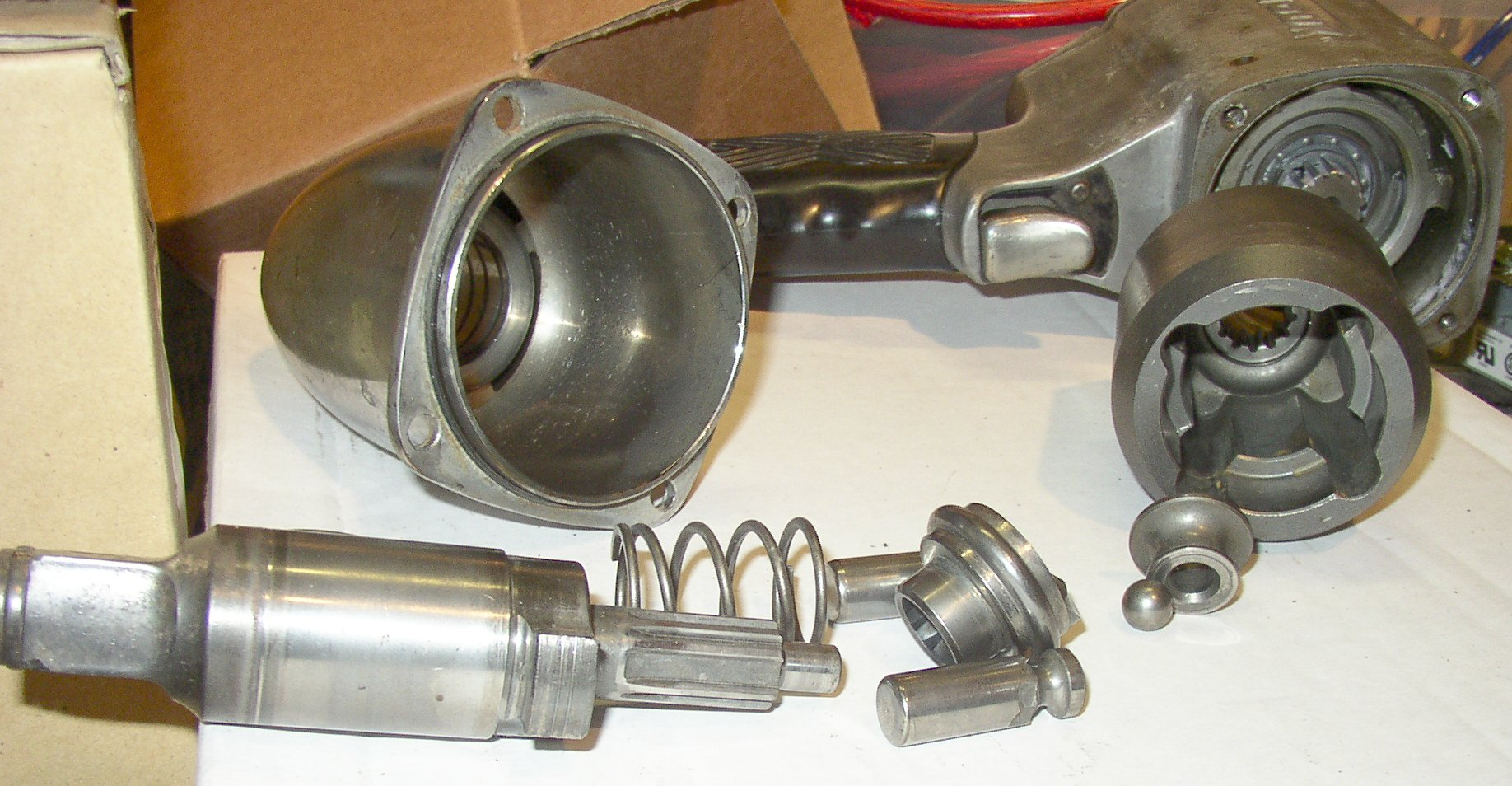 I took this photo myself, of my dismantled impact wrench, and release it under the GFDL.